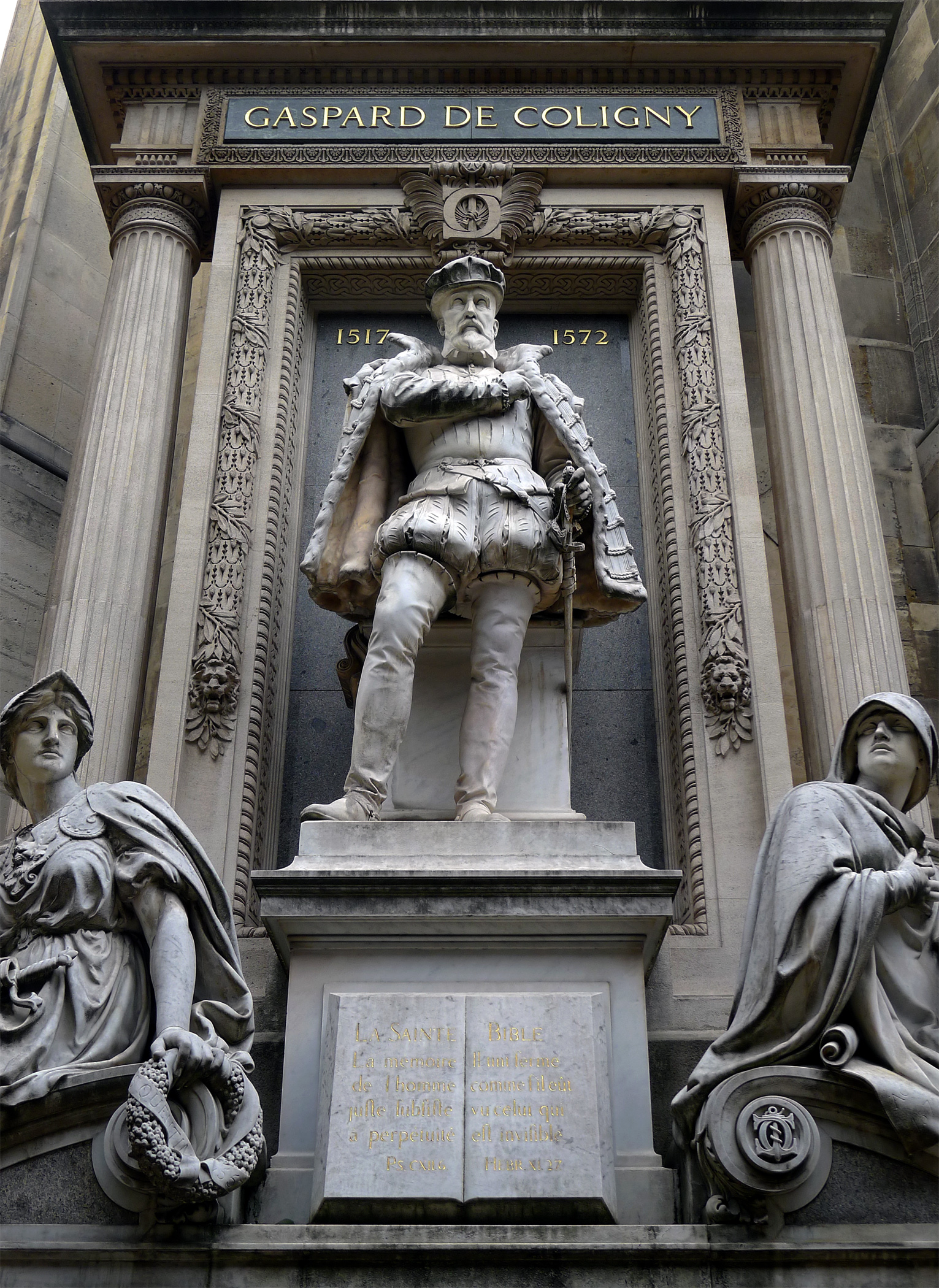 Gaspard de Coligny by Gustave Crauck. Marble, 1889. Chevet of the Oratoire Temple, 160 rue de Rivoli, Paris. Note: the inscription is mistaken, Coligny was born in 1519, not 1517.